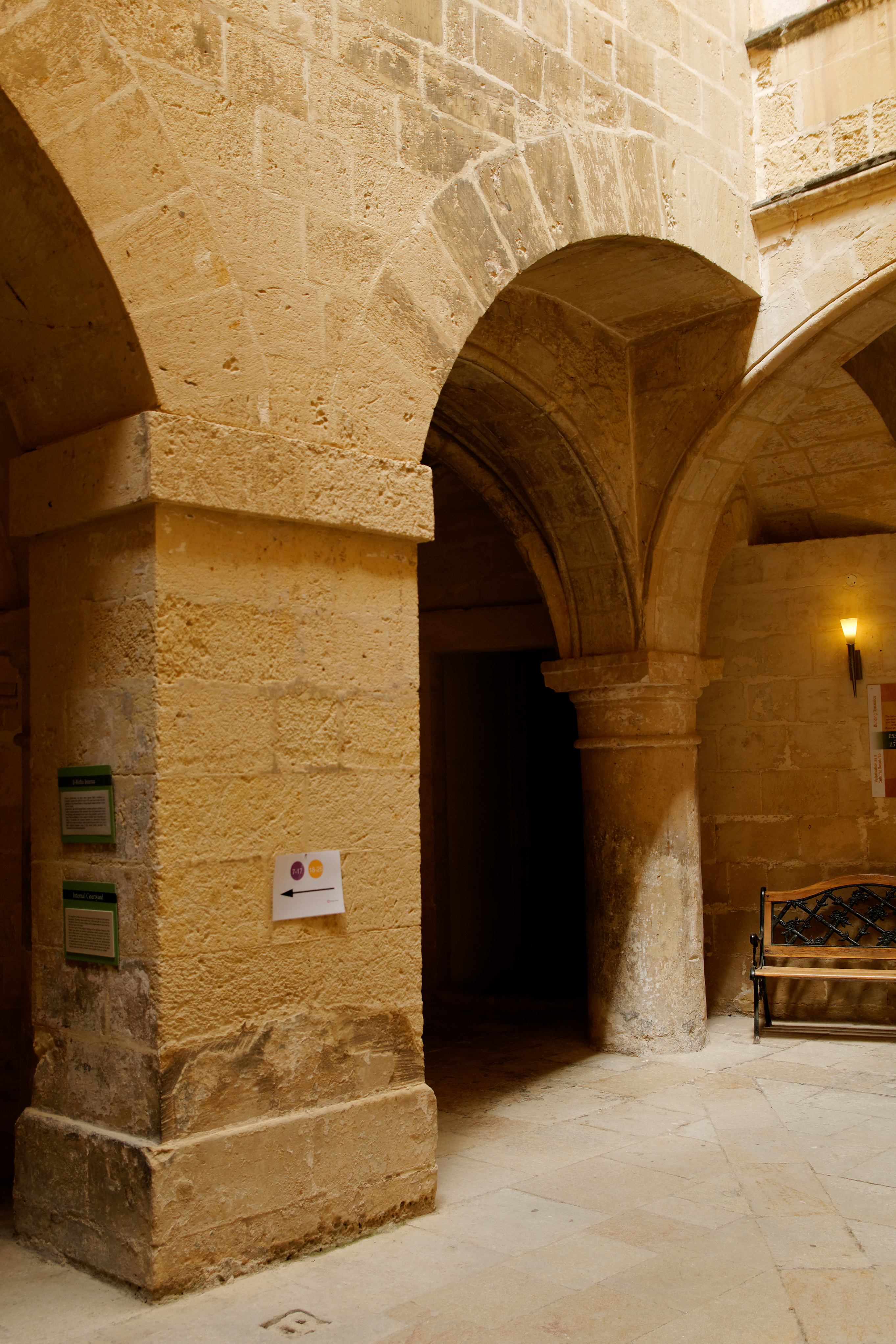 Main internal courtyard of the Inquisitor's palace in Vittoriosa (Birgu), Malta.